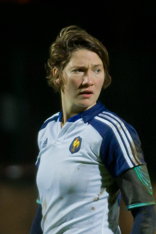 French rugby union player Jessy Trémoulière during the Women's Six Nation 2014 match vs Italy